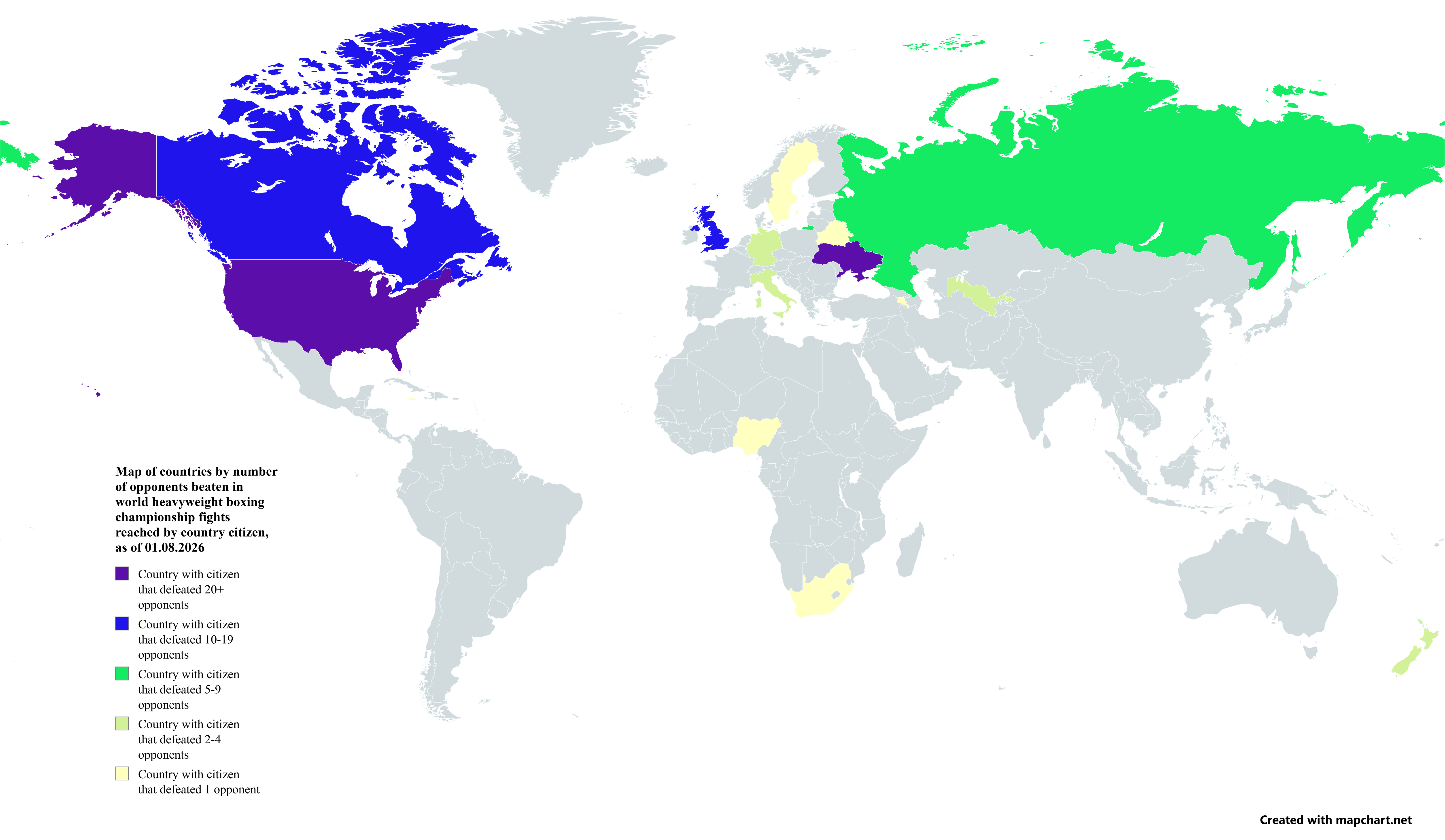 The map was created in